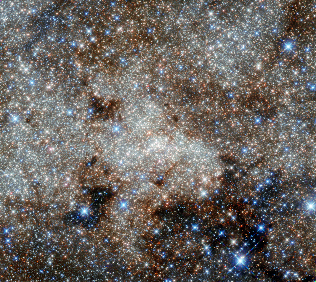 This image, not unlike a pointillist painting, shows the star-studded centre of the Milky Way towards the constellation of Sagittarius. The crowded centre of our galaxy contains numerous complex and mysterious objects that are usually hidden at optical wavelengths by clouds of dust — but many are visible here in these infrared observations from Hubble. However, the most famous cosmic object in this image still remains invisible: the monster at our galaxy’s heart called Sagittarius A*. Astronomers have observed stars spinning around this supermassive black hole (located right in the centre of the image), and the black hole consuming clouds of dust as it affects its environment with its enormous gravitational pull. Infrared observations can pierce through thick obscuring material to reveal information that is usually hidden to the optical observer. This is the best infrared image of this region ever taken with Hubble, and uses infrared archive data from Hubble’s Wide Field Camera 3, taken in September 2011. It was posted to Flickr by Gabriel Brammer, a fellow at the European Southern Observatory based in Chile. He is also an ESO photo ambassador.